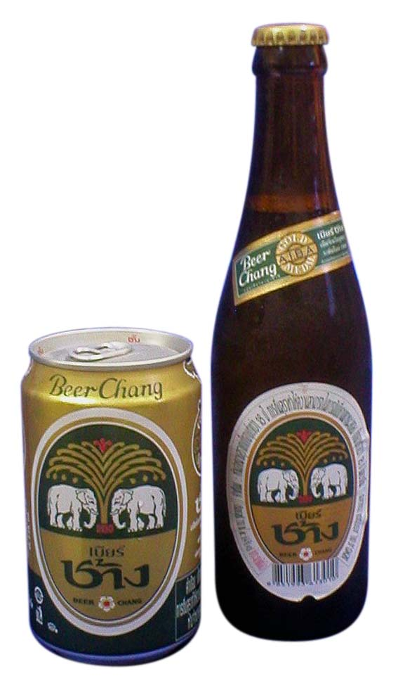 Bottle and can of Chang Beer selling in Thaïland. Graphic detour of the picture